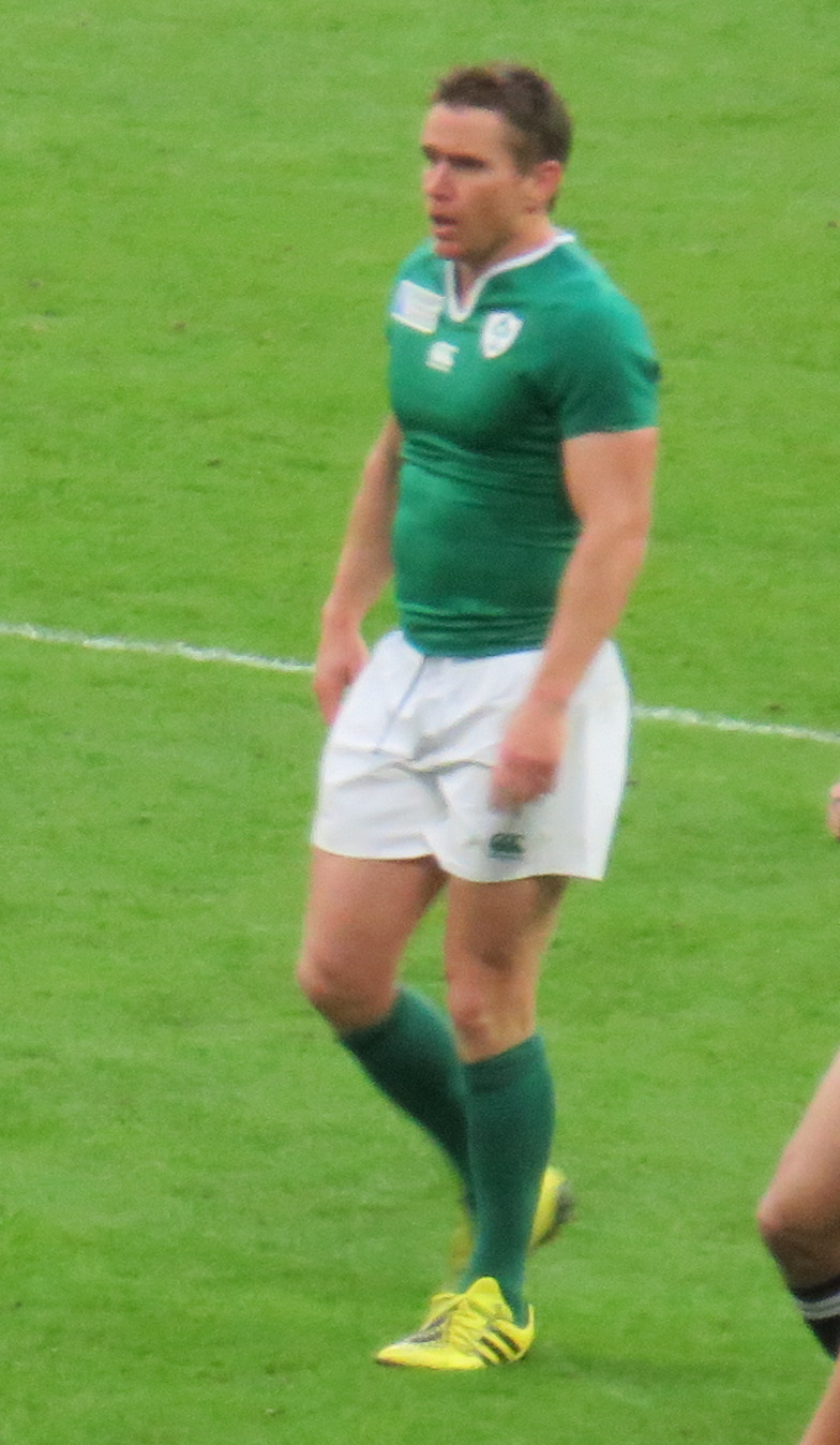 2015 Rugby World Cup game Ireland vs Romania at Wembley Stadium, London.